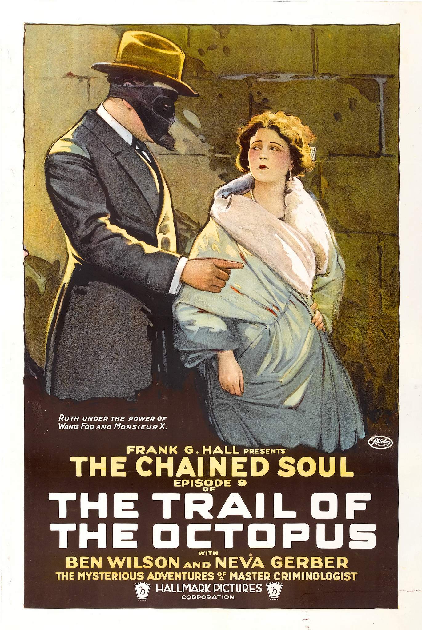 Theatrical poster for the film serial The Trail of the Octopus, Episode 9: "The Chained Soul."